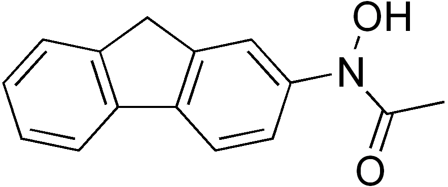 chemical structure of Hydroxyacetylaminofluorene